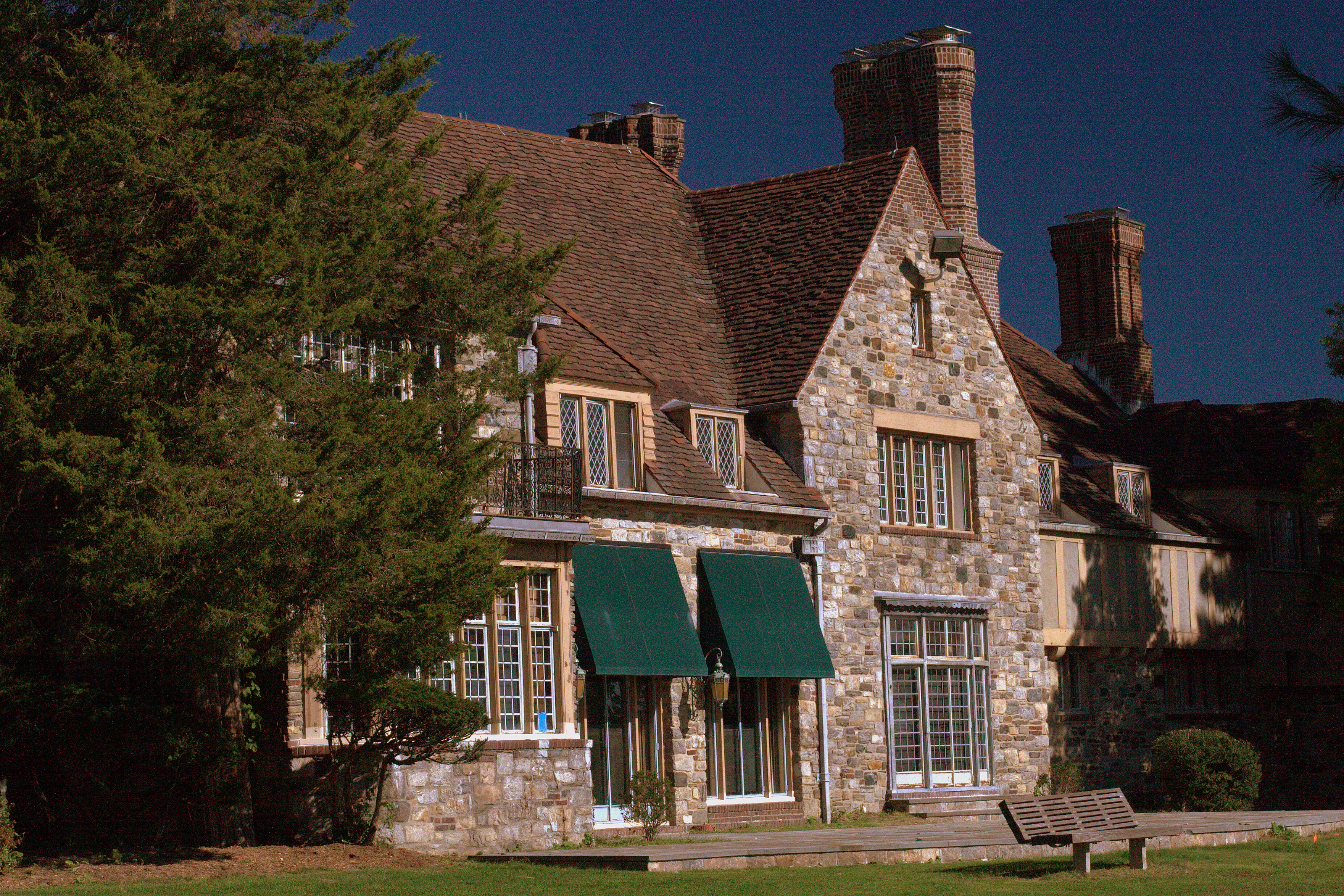 Exterior south face of Hartford Hall on the campus of Westchester Community College.